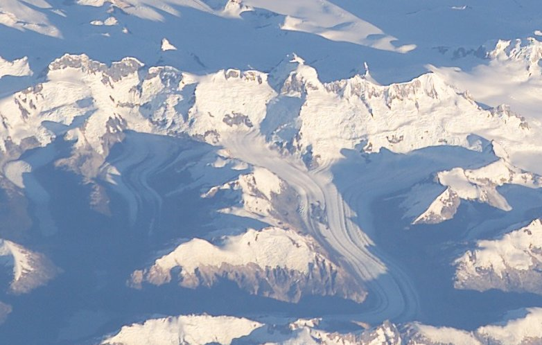 Cerro Pared Norte, Campo de Hielo Norte, Chile. Cropped from original image.